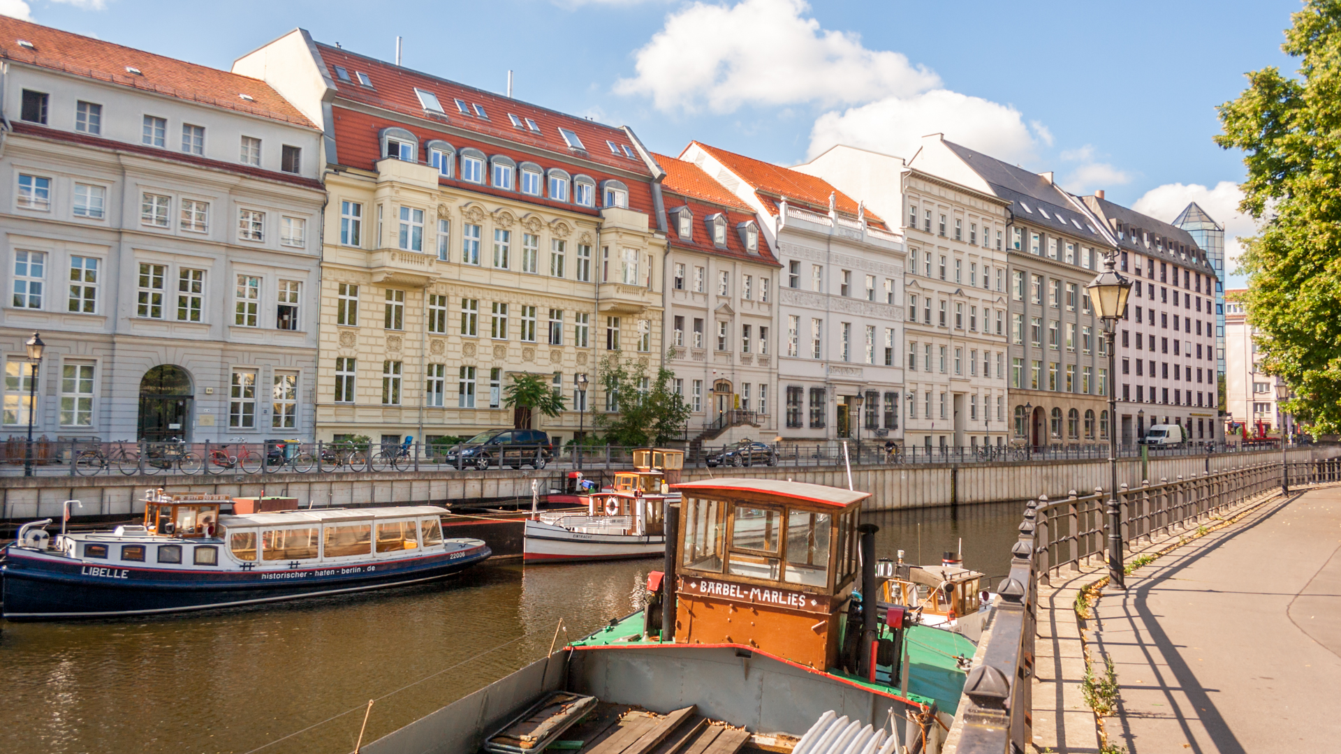 A short section of this canal in Berlin that is bounded by fences. HFF Berlin has more bridges than Venice and about 100 miles of navigable water much of which is as canals.